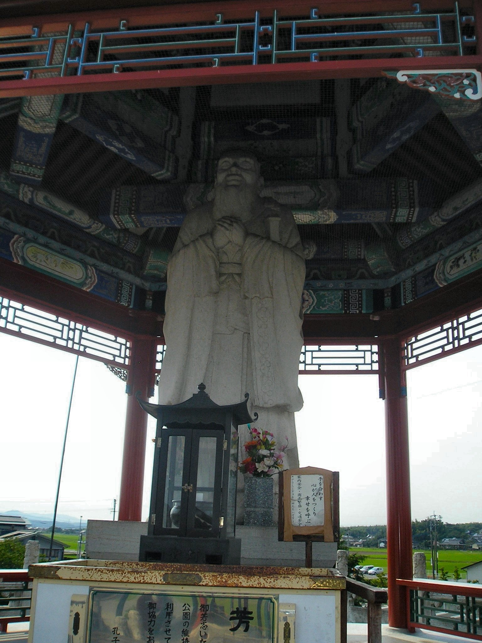 Confucius Statue at the Koshi (Confucius) Park, Kikuchi City, Kumamoto